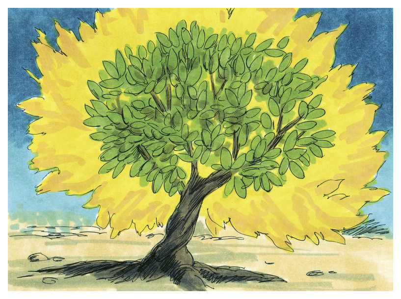 Biblical illustration of Book of Exodus Chapter 4